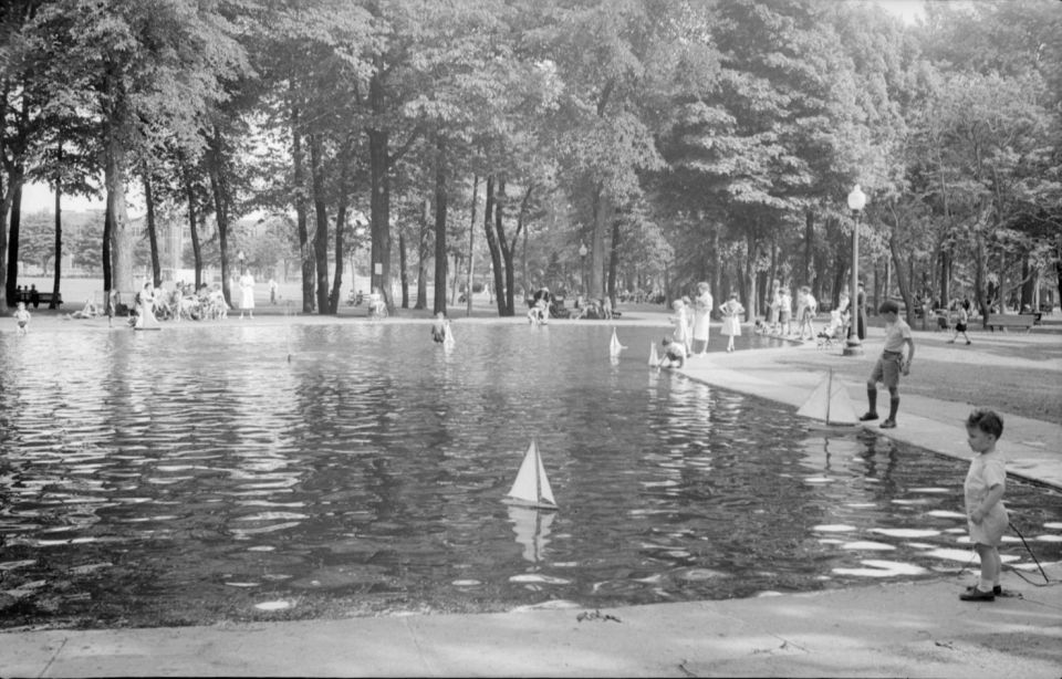 For documentary purposes the original description provided by BAnQ has been retained. Additional descriptive text may be added by Wikimedians with the wiki description = parameter, but please do not modify the other fields.